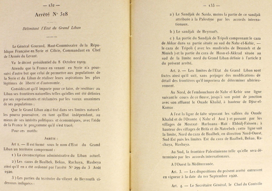 Arrete no 318 Delimitat l'Etat du Grand Liban